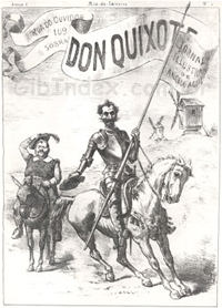 Cover of Don Quixote #1 (1885) by Agostini